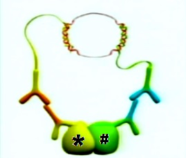 Proximity Ligation Assay: Step 3